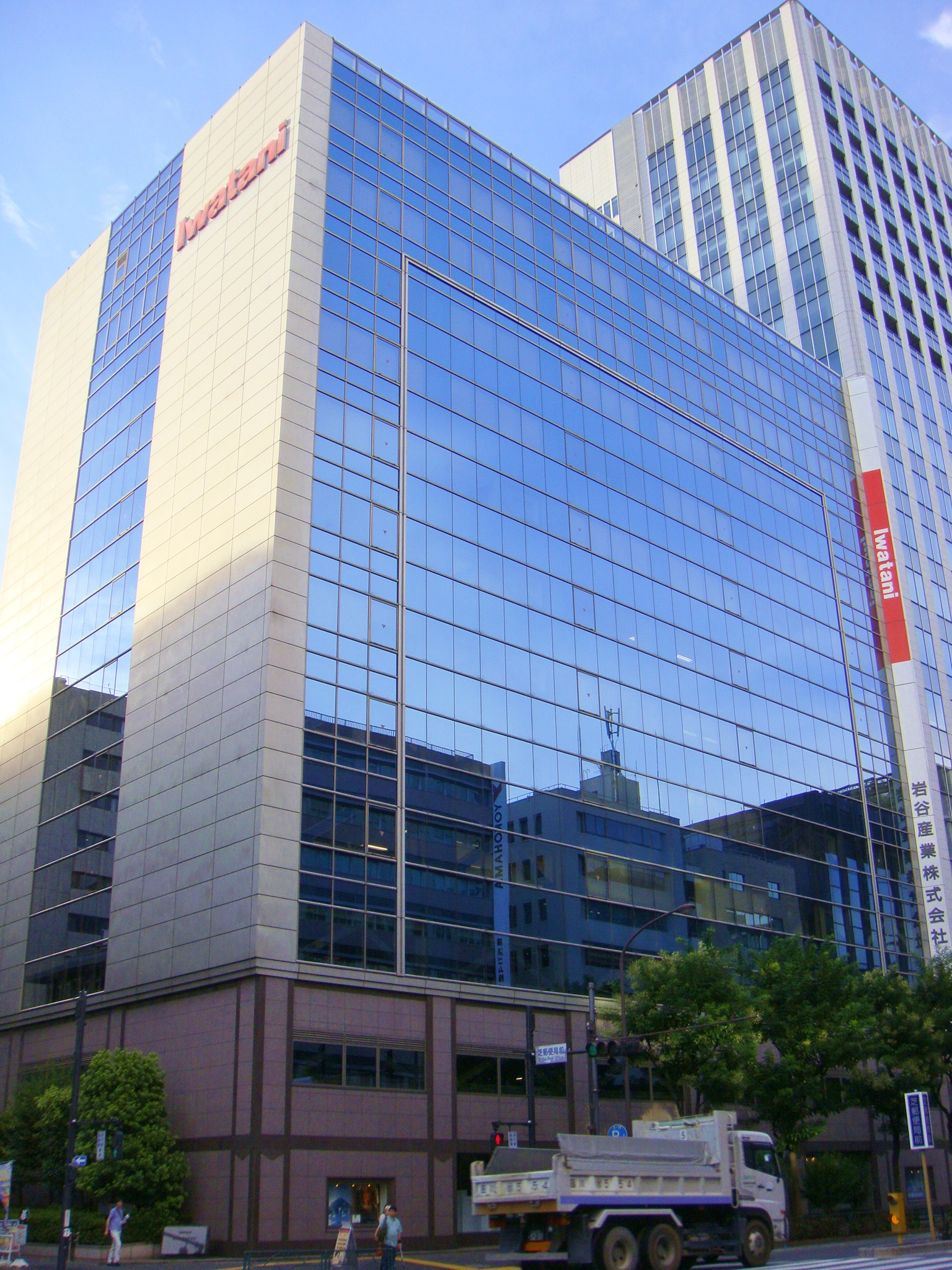 Iwatani Corporation Tokyo Head Office